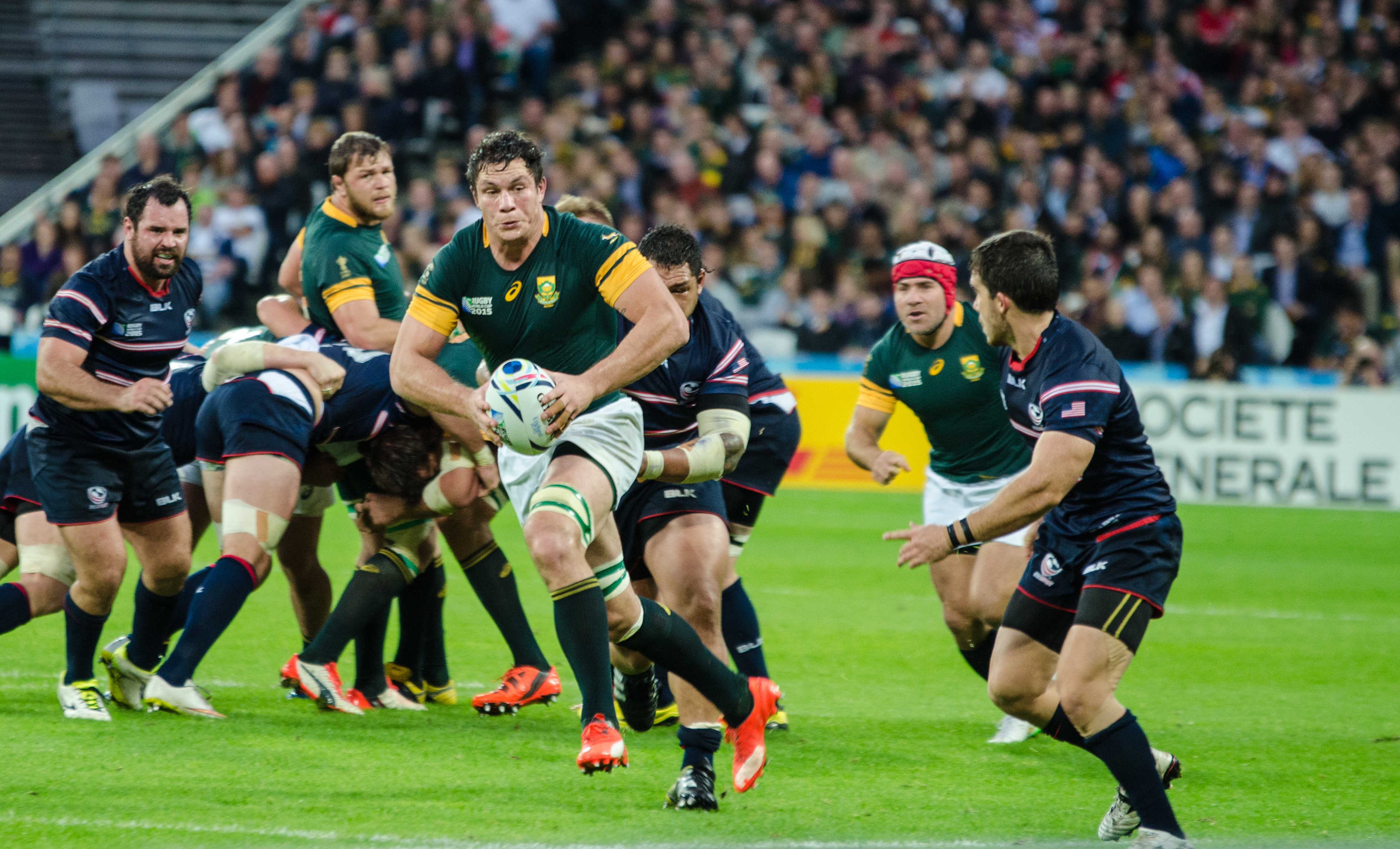 South African international rugby union footballer Francois Louw during 2015 Rugby World Cup match against United States at Olympic Park in London.